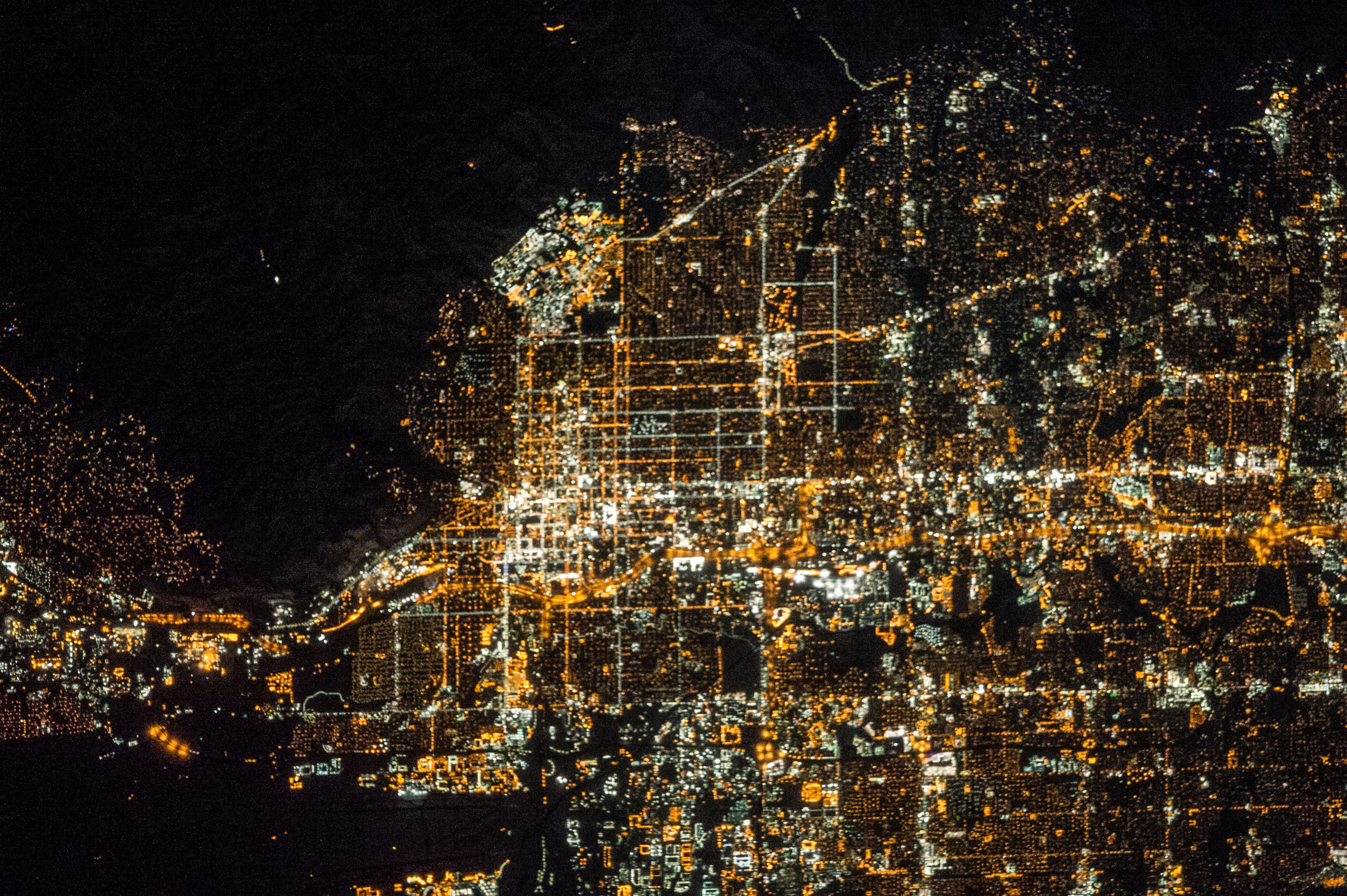 A nighttime view of Salt Lake City, Utah is featured in this image photographed by an Expedition 38 crew member on the International Space Station. The Salt Lake City metropolitan area is located along the western front of the Wasatch Range in northern Utah. Viewed at night from the vantage point of the space station, the regular north-south and east-west layout of street grids typical of western U.S. cities is clearly visible. Known as "the crossroads of the West", the headquarters of The Church of Jesus Christ of Latter-day Saints (also known as the LDS Church and informally as the Mormon Church), and the state capital of Utah, Salt Lake City was founded in 1847 by Brigham Young together with other followers of the Mormon faith. The Salt Lake City metropolitan area today is included in the larger urban Wasatch Front region of Utah which includes over two million people (approximately 80 percent of the population of the state). Both the color of the city lights and their density provide clues to the character of the urban fabric – yellow gold lights generally indicate major roadways such as Interstate Highway 15 that passes through the center of the metropolitan area (center, left to right), while bright white clusters of lights are associated with city centers, commercial, and industrial areas. In contrast, residential and suburban areas are recognizable due to diffuse and relatively dim lighting (center left). The Wasatch Range to the east is largely dark, as are several large urban parks and golf courses located within the illuminated urban areas.